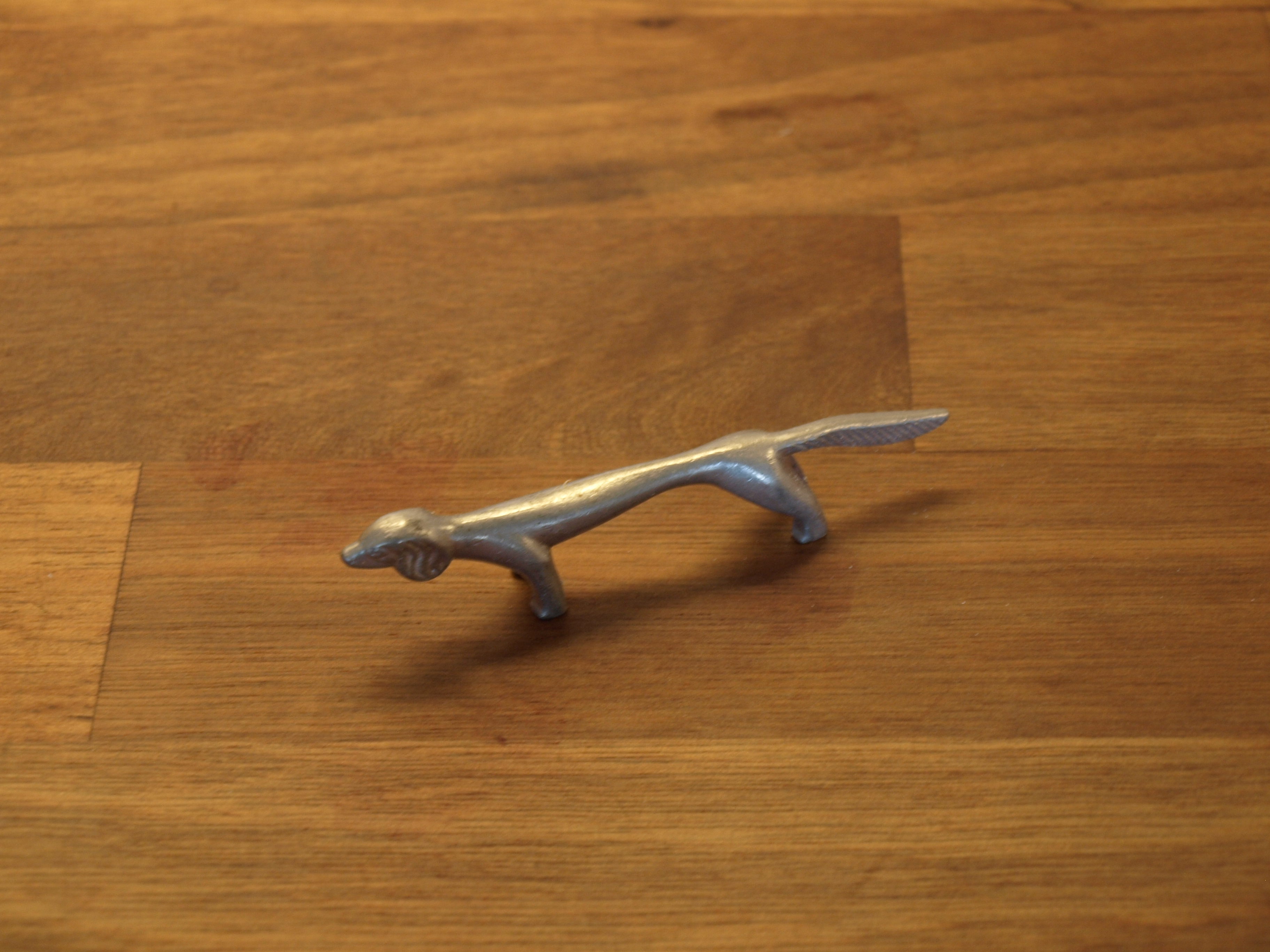 A swedish "butterdog", on which you can put your used butter knives